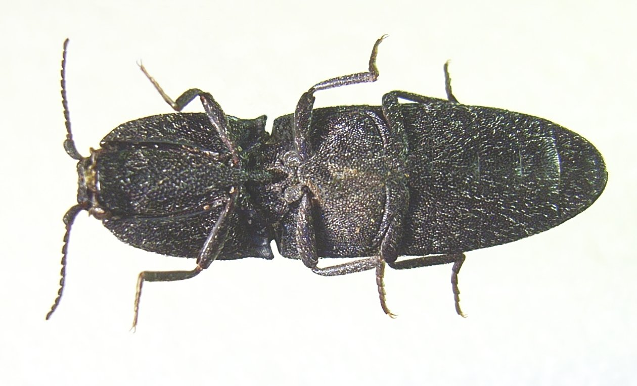 Underside of Lacon punctatus